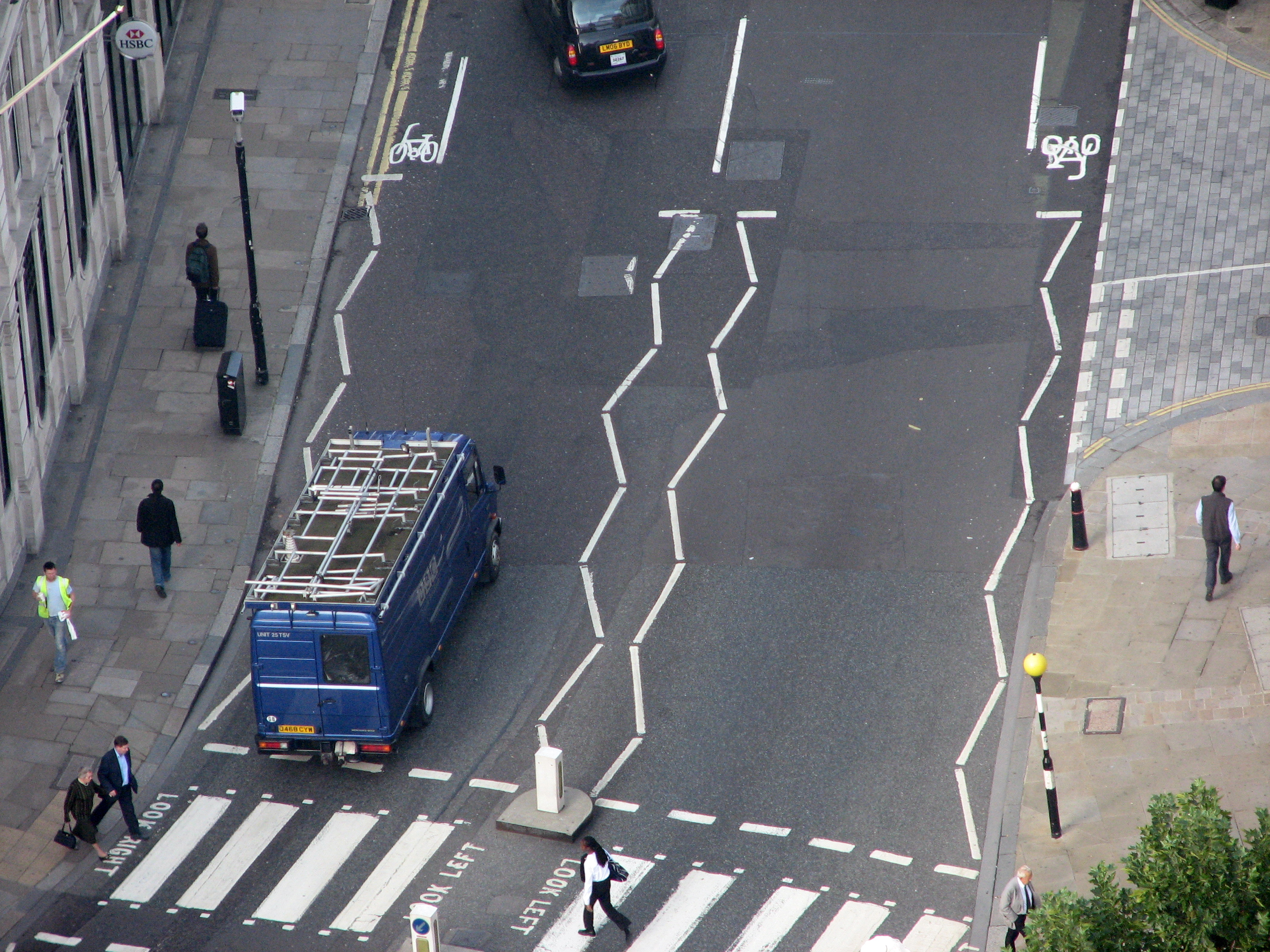 Wavy lines are used in England and other places to warn motorists of an impending pedestrian crossing. Probably not a notable subject, but a new one to this American tourist :-) Picture taken from St. Paul's Cathedral.